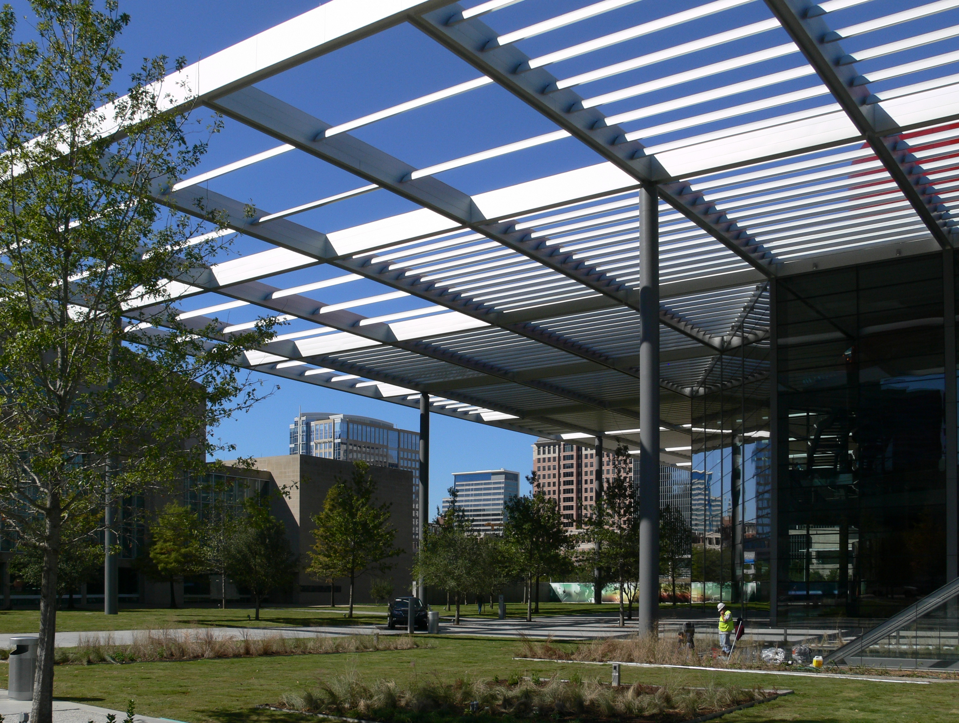 Dallas, Texas: AT&T Performing Arts Center, Margot and Bill Winspear Opera House